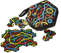 picture of Tantrix bag and tiles